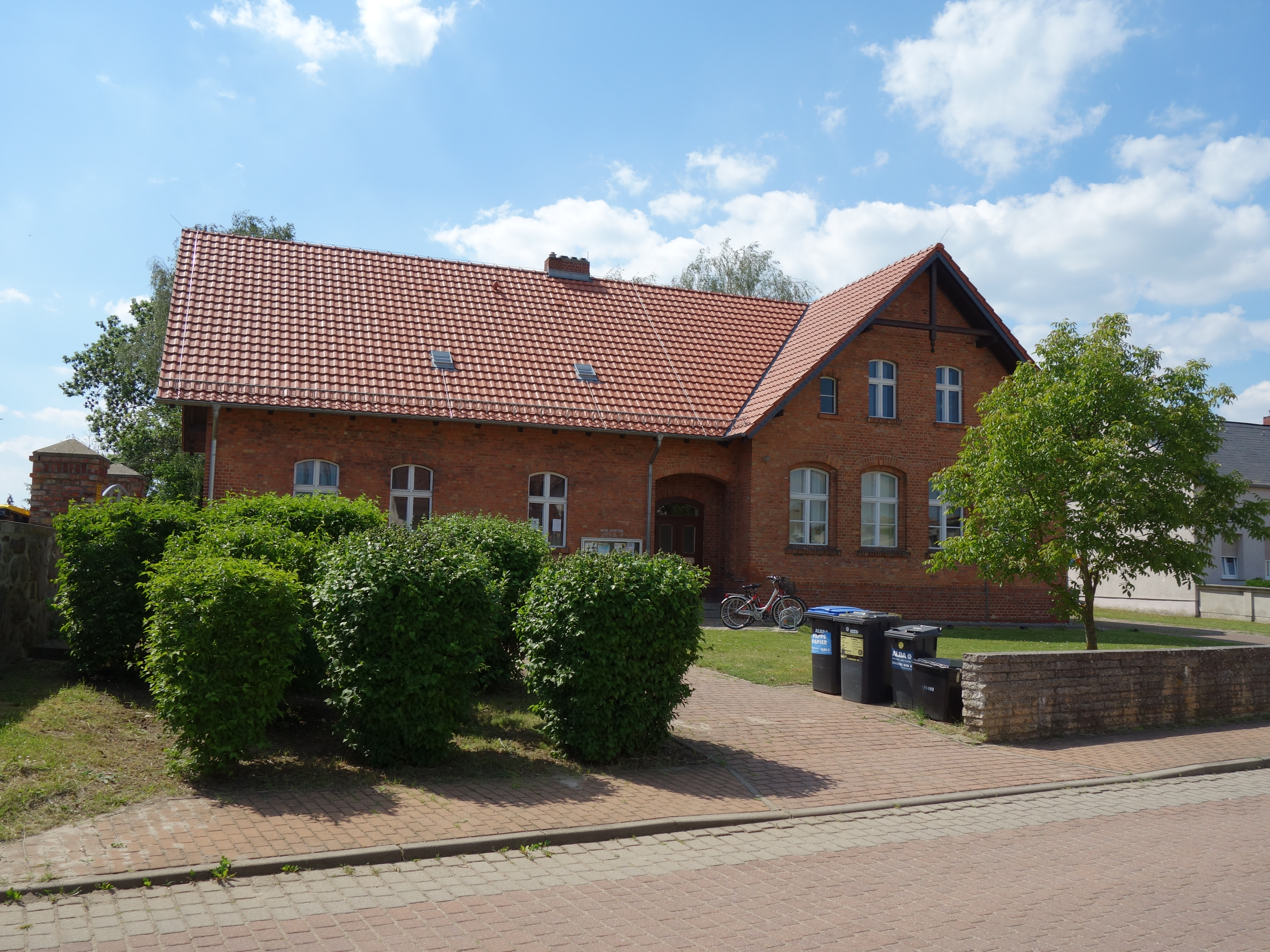 South-eastern view of the former school in Heinersdorf , Schwedt municipality , Uckermark district, Brandenburg state, Germany.